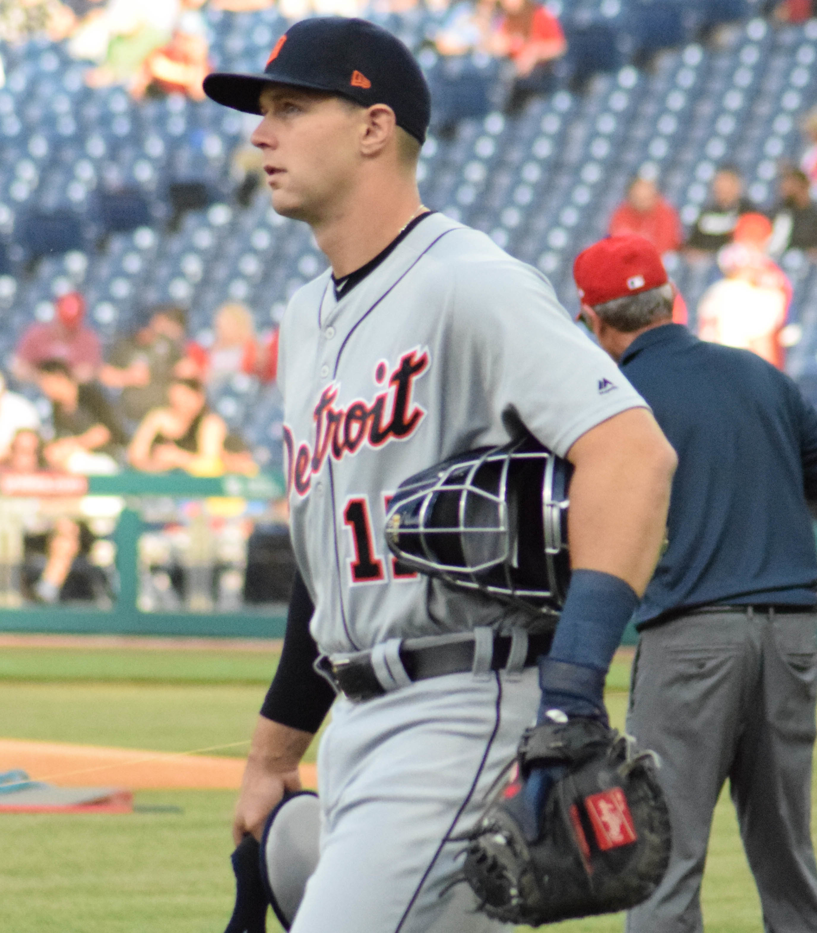 Grayson Greiner of the Detroit Tigers at Citizens Bank Park in Philadelphia in April 2019.